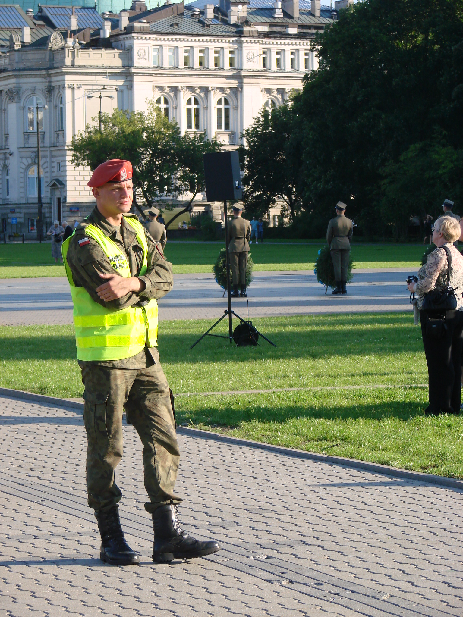 Officer of the Military Gendarmerie in Warsaw